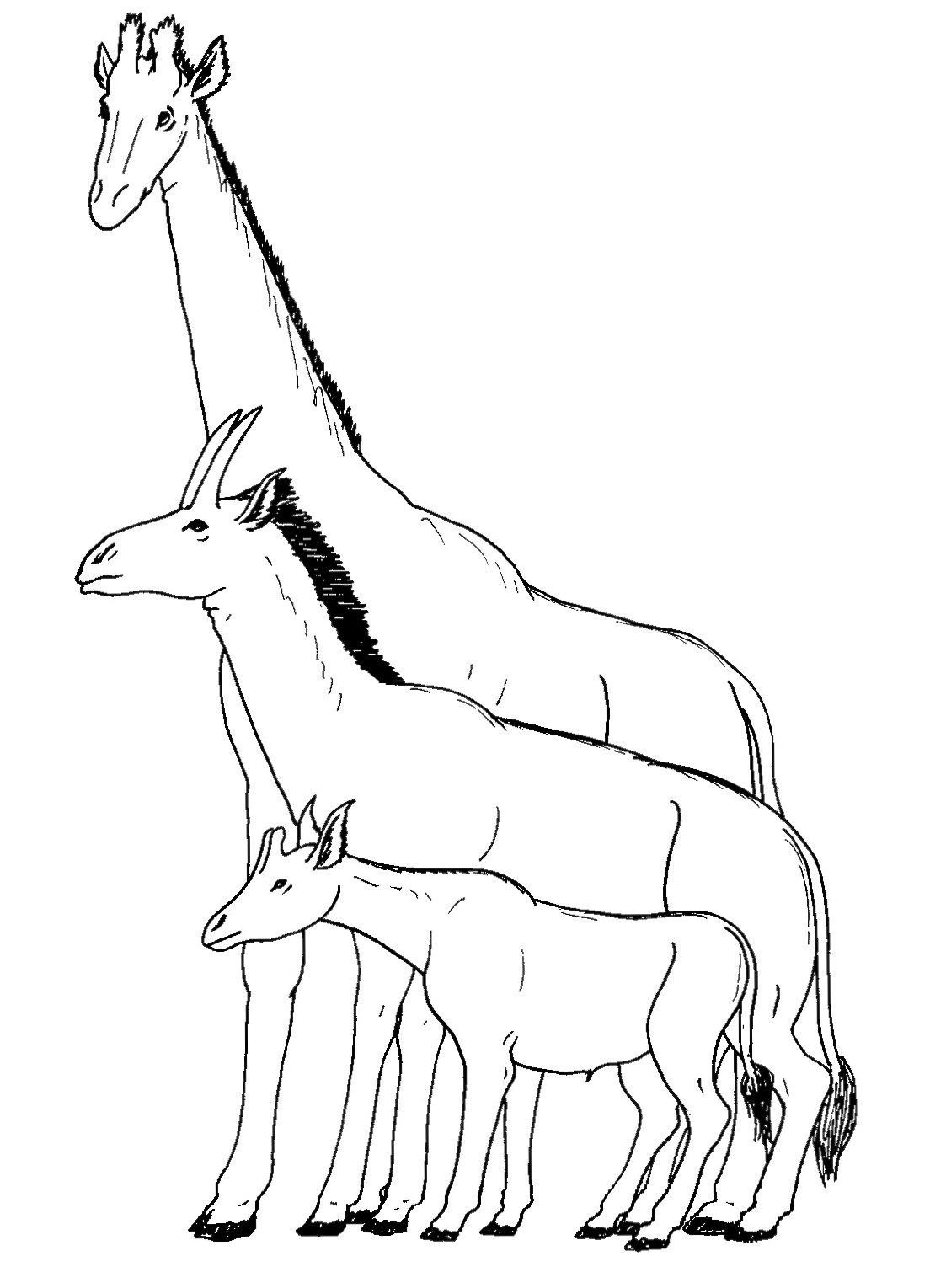 Comparison of various giraffids, including Giraffa camelopardalis, Samotherium, and Okapia johnstoni.